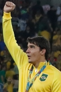 BRASIL GANHA OURO INÉDITO NO FUTEBOL OLÍMPICO